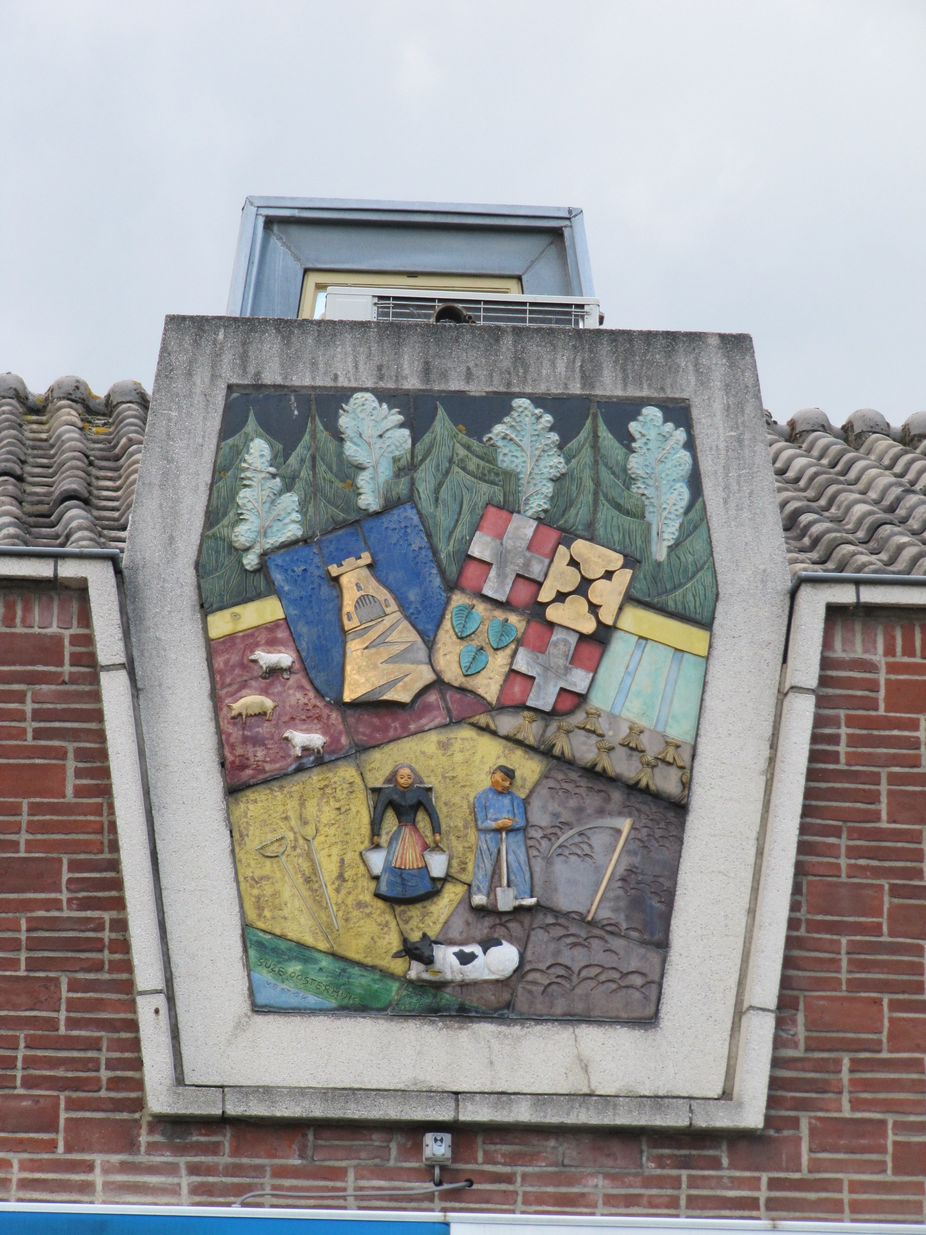 Relief with the coats of arms of Stoutenburg and Leusden at the facade of Hamersveldseweg 2 in Leusden, The Netherlands